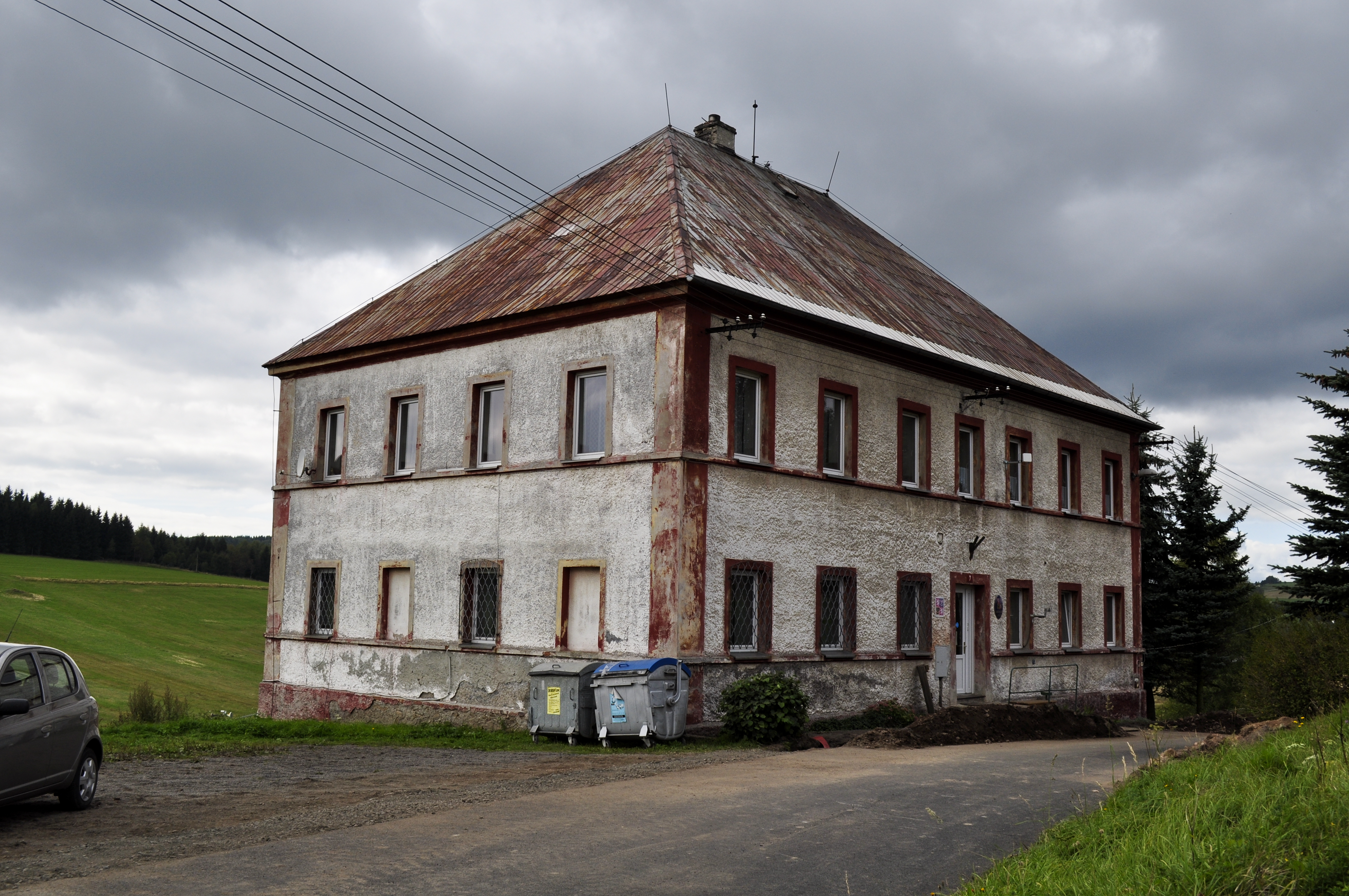 Kalek - municipality office